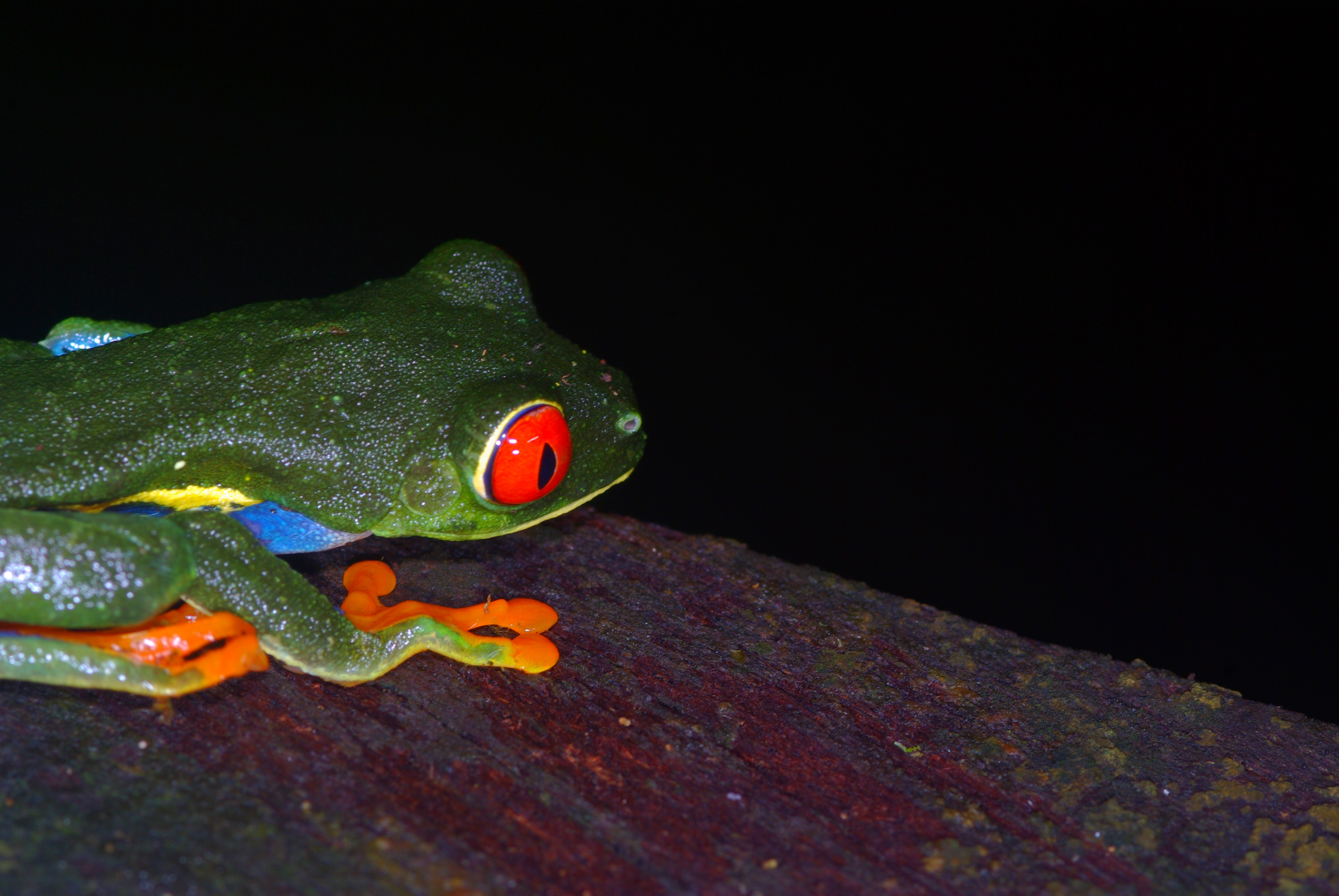 Red-eyed tree frog (Agalychnis callidryas) at night. Biological station La Selva, Costa Rica, December 2011